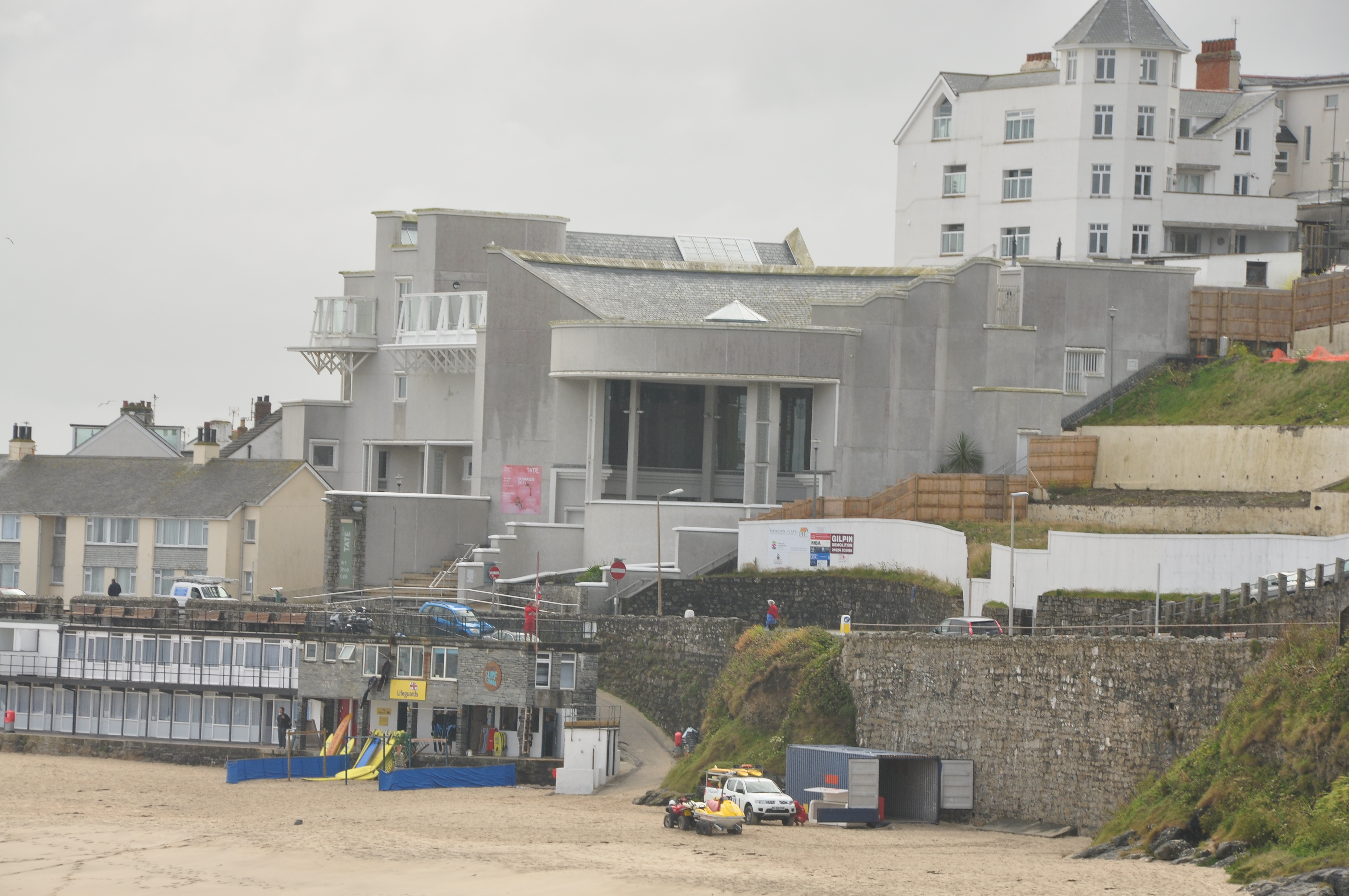 Porthmeor Beach and Tate St Ives